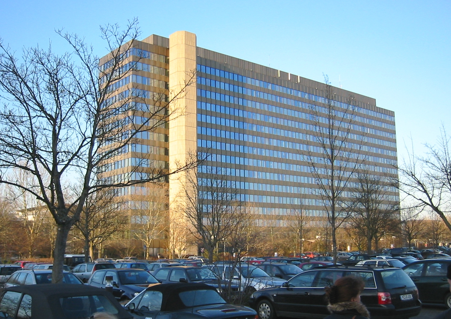 Head of ZDF in Mainz, Germany.